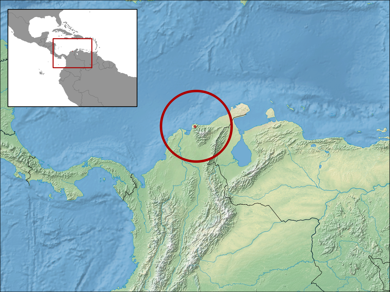 geographic distribution of Santamartamys rufodorsalis